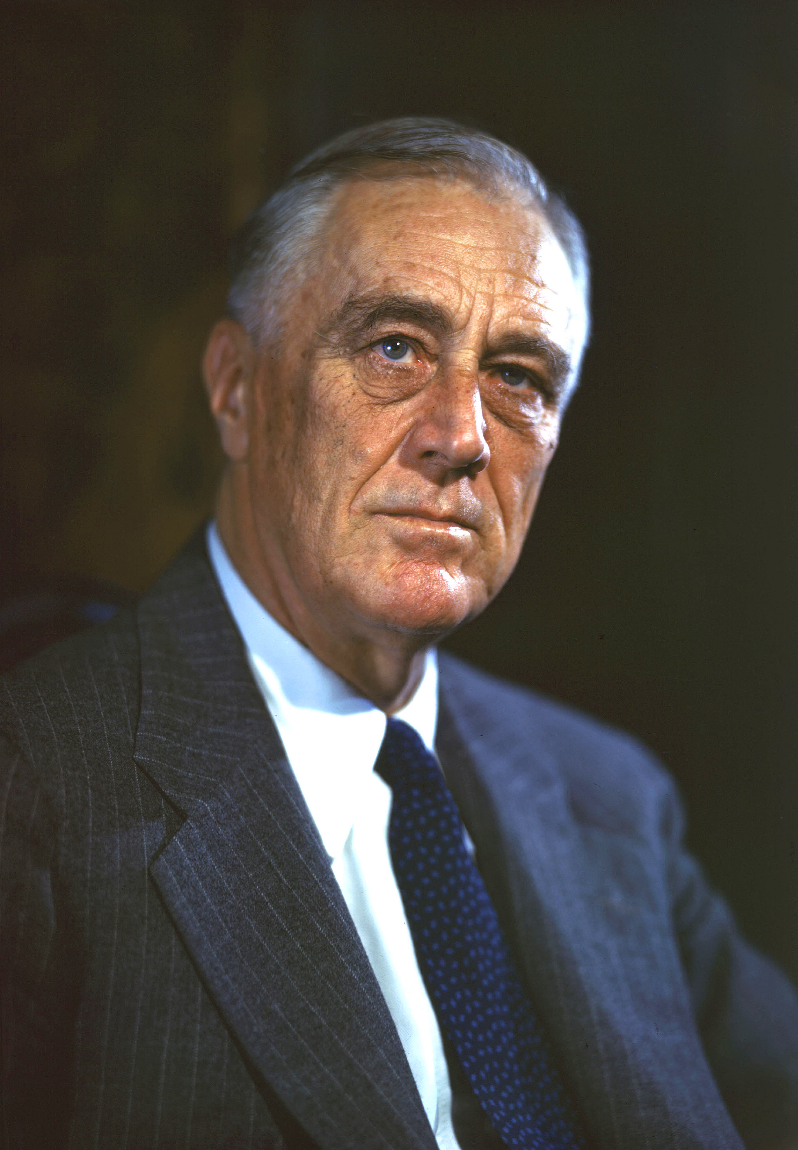 Original color transparency of FDR taken at 1944 Official Campaign Portrait session by Leon A. Perskie, Hyde Park, New York, August 21, 1944. Gift of Beatrice Perskie Foxman and Dr. Stanley B. Foxman. August 21, 1944